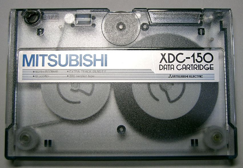 data cartridge